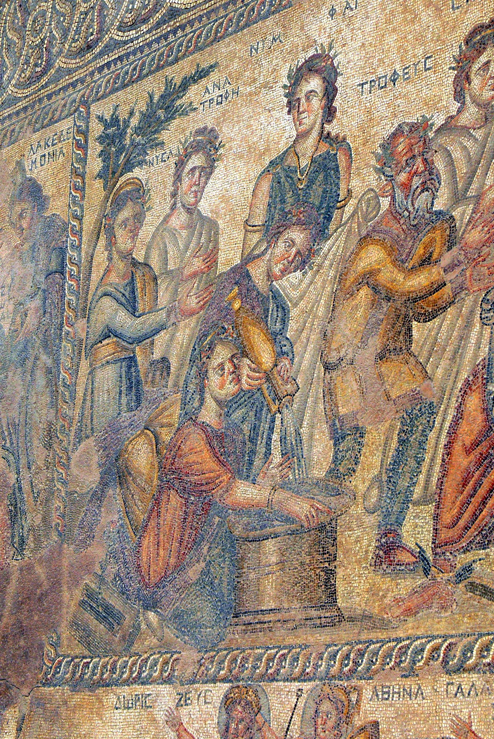 Paphos Archaeological Park. House of Aion: Birth of Dionysos - Nymphs of Nysa mountain prepare a bath for young Dionysos ( detail ).